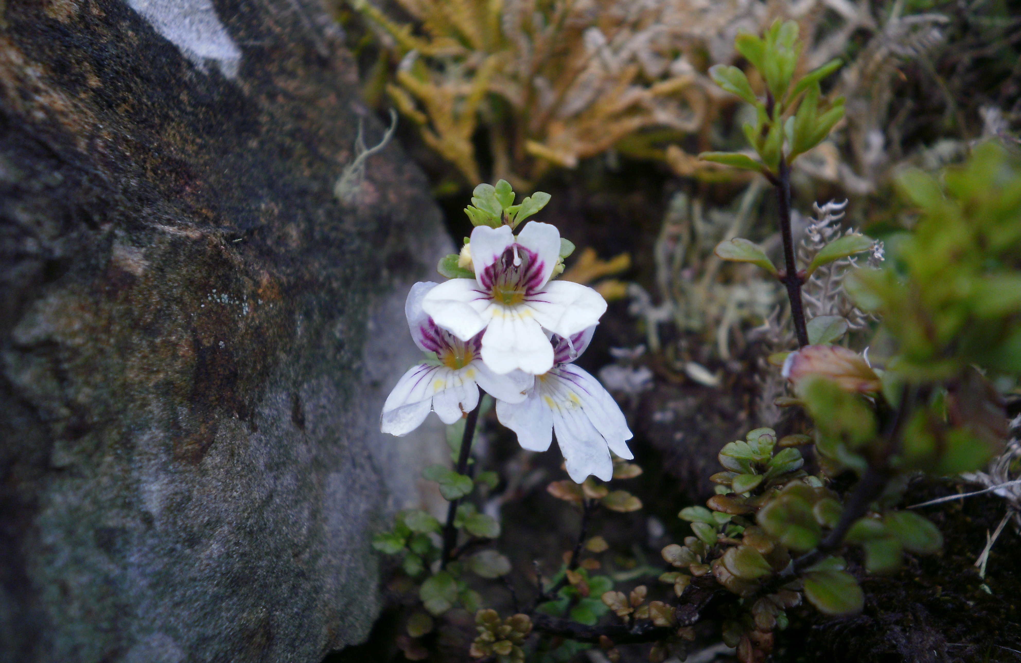 Euphrasia cuneata, North Island eyebright, on Rimutaka Hill, Upper Hutt, New Zealand.